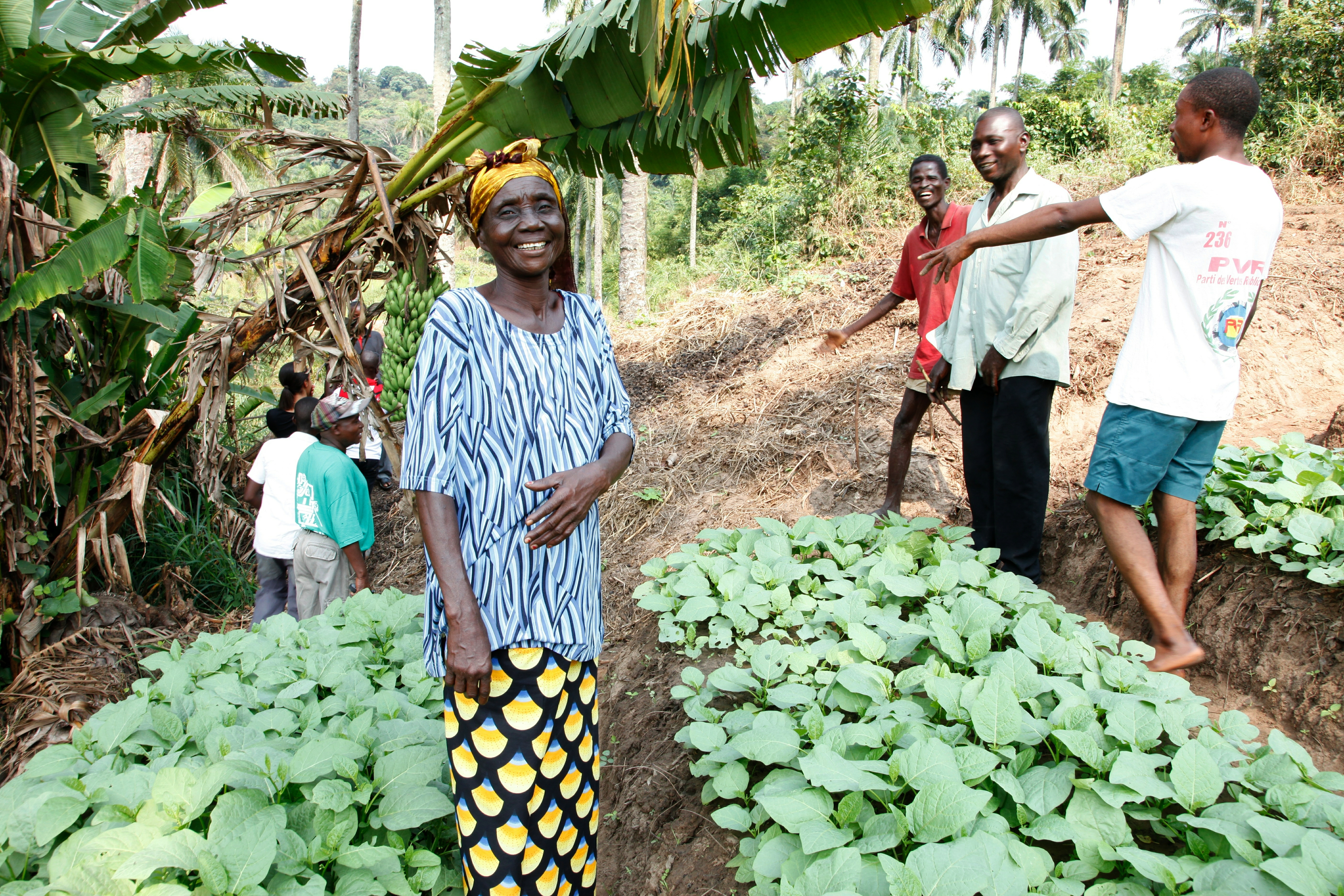 Members of the community farming group at work in their community fields near the town of Masi Manimba, Bandundu Province, DRC. Since receiving some training on healthier eating and nutrition from the NGO Action Against Hunger, the community organised itself into voluntary groups and came up with the idea for a co-operative farm. It now produces enough food to feed the 35 families in the community whilst still leaving them enough to sell at the local market. Background UK aid has supported the government of DRC and aid agencies including Action Against Hunger to provide emergency nutrition response programmes across DRC in 2010 and 2011. In some areas, the communities have taken some of the ideas that Action Against Hunger brought to them, and organised themselves to tackle malnutrition from the ground up - by forming their own co-operative farms and self-support groups. Read the full story at Picture: Russell Watkins/Department for International Development Terms of use This image is posted under a Creative Commons - Attribution Licence, in accordance with the Open Government Licence. You are free to embed, download or otherwise re-use it, as long as you credit the source as Russell Watkins/Department for International Development'.